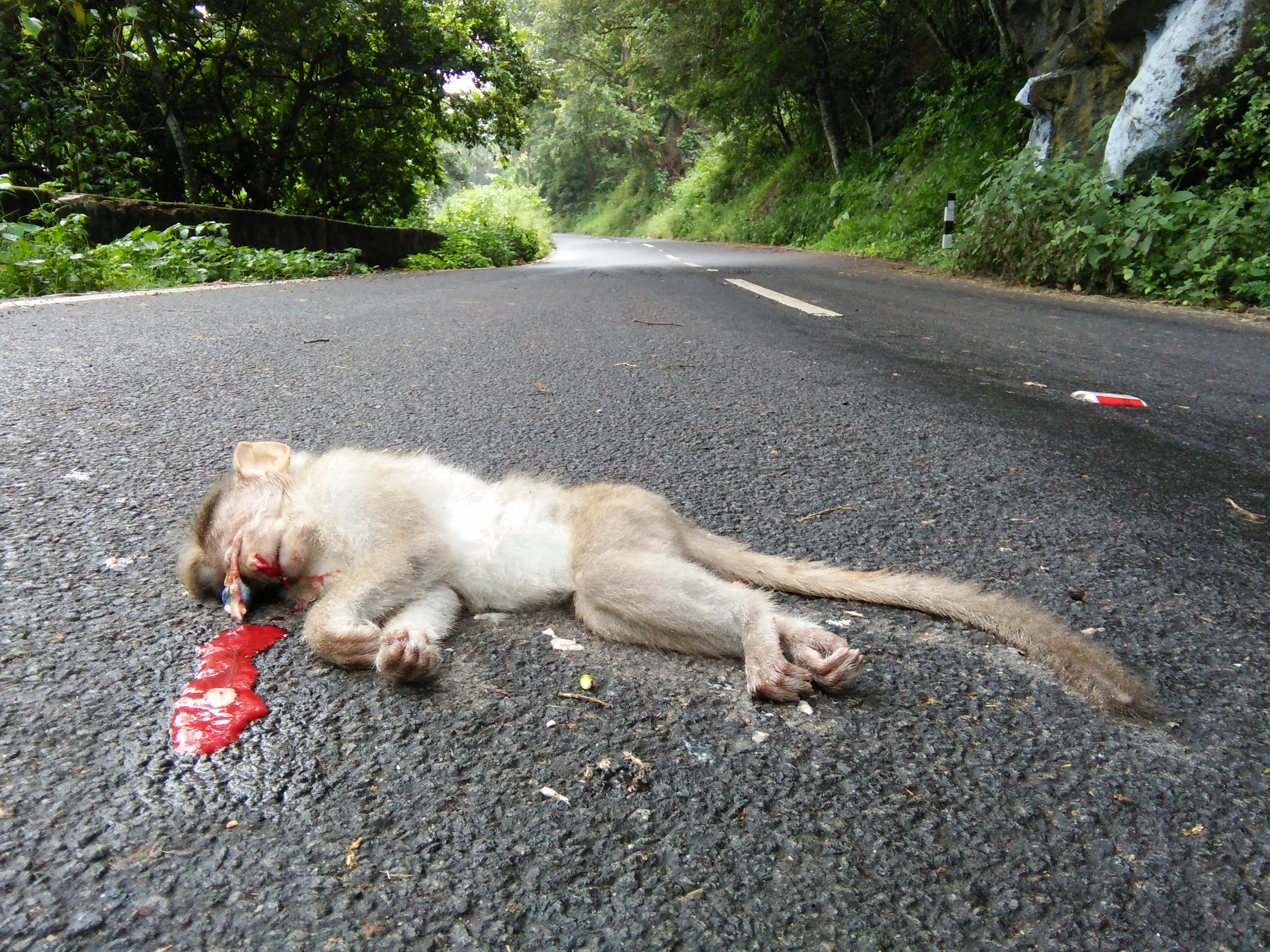 Bonnet macaque infant roadkill in the Anamalai hills, India